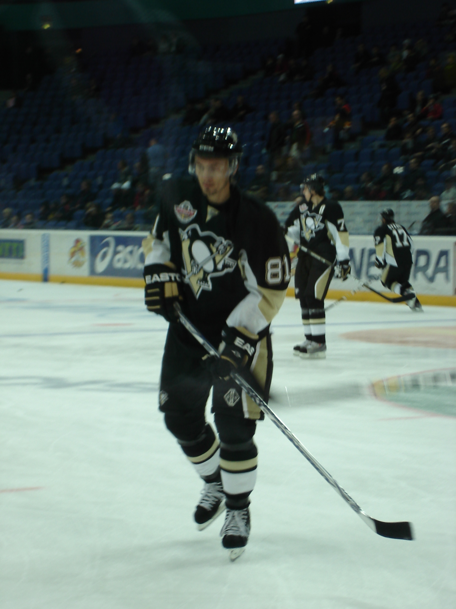 Miroslav Satan in Helsinki.